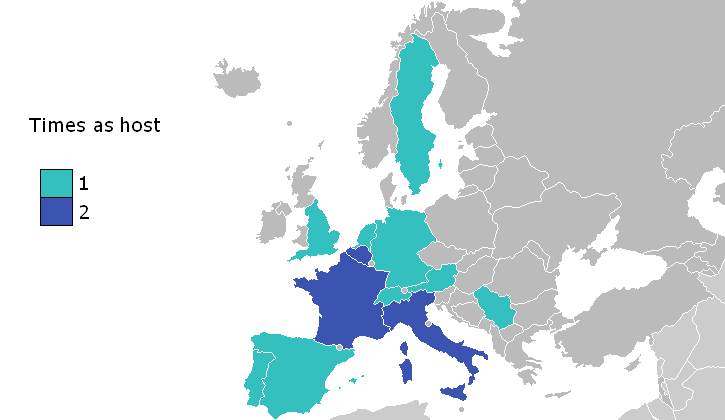 UEFA European Football Championship hosts (colors). Based on Image:BlankMap-Europe.png and Image:World cup countries best results and hosts.PNG.